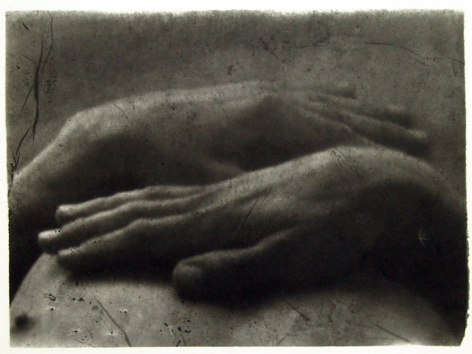 Photograph from Michal Macků